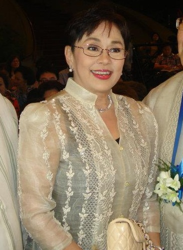 Governor Vilma Santos-Recto at Danny Dolor's 'ALITAPTAP...' Movie Posters Exhibit in Lipa City, Batangas Philippines